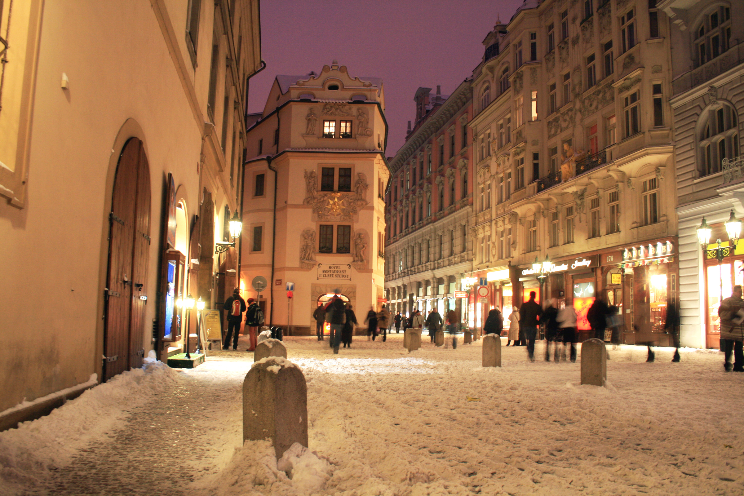 Hotel "U Zlaté studny" in Prague under snow, winter 2010